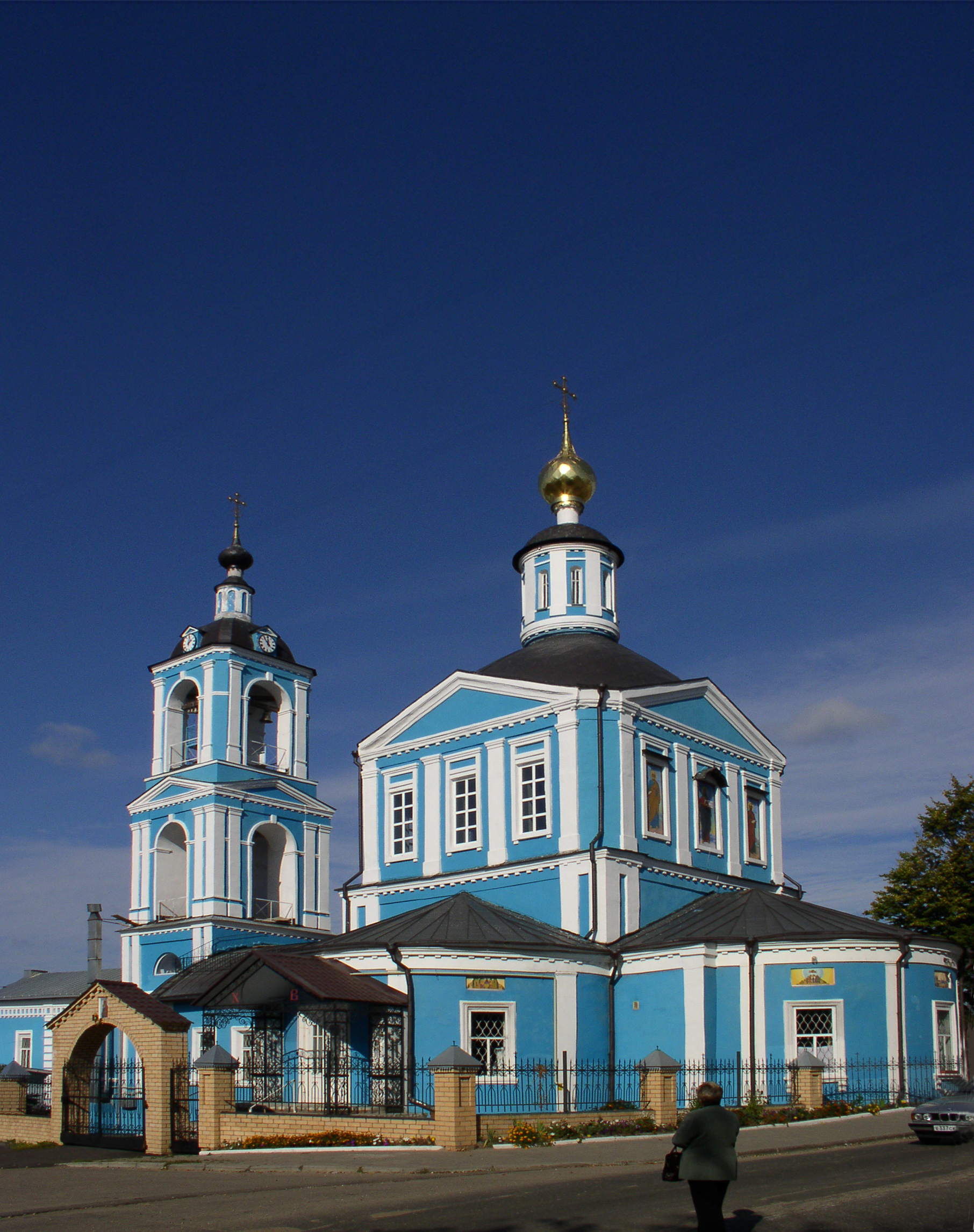 Church of Saints Apostles Peter and Paul, Sergiev Posad, Russia.